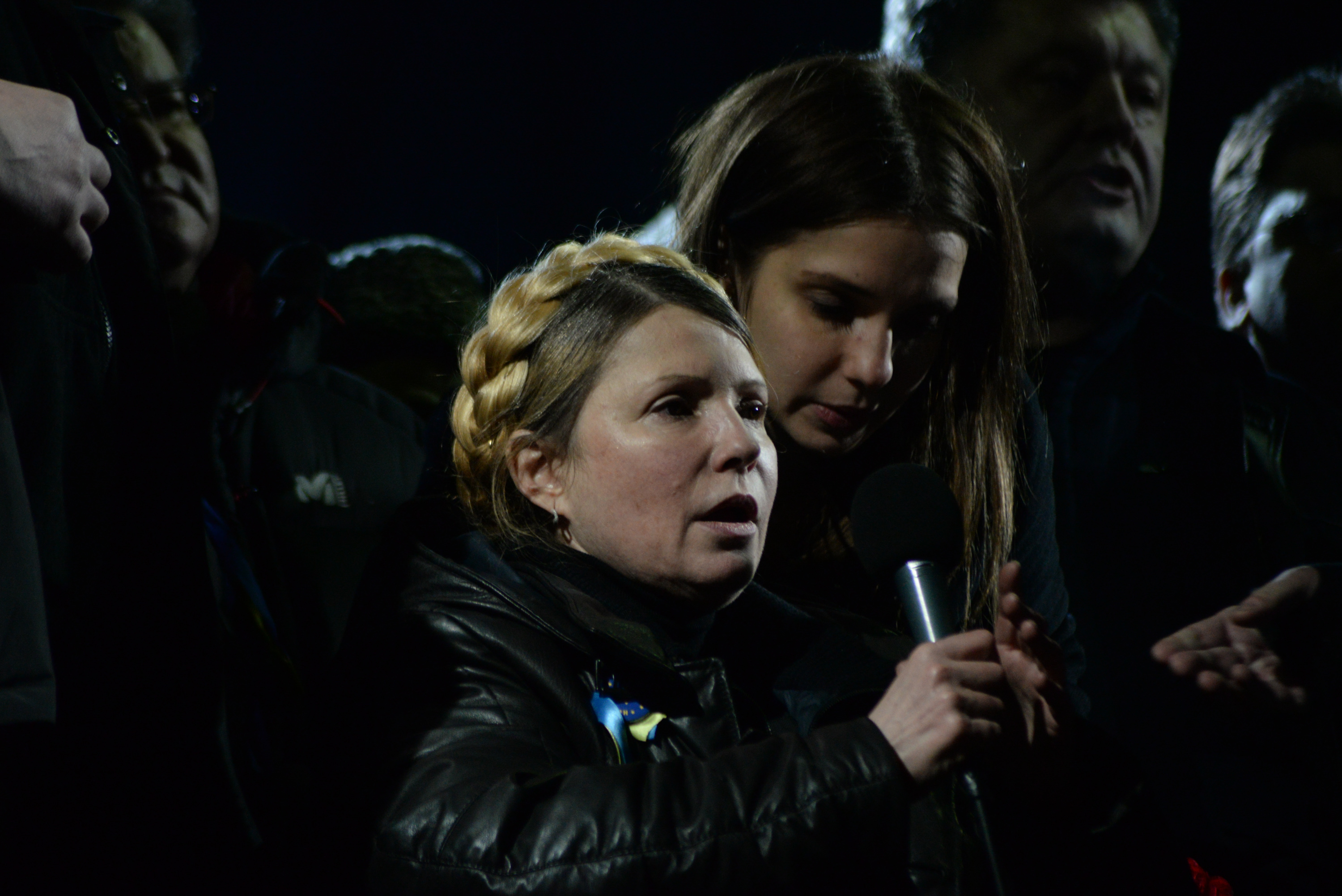 Yulia Tymoshenko addressing Euromaidan with a speech. Kyiv, Ukraine. Events of February 22, 2014.-1